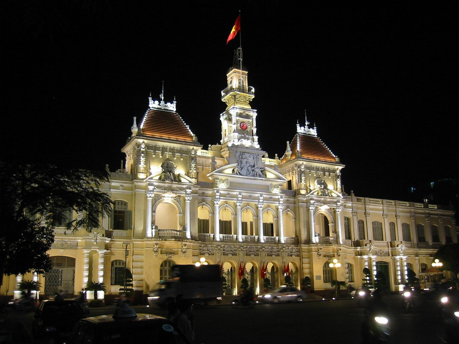 City Hall of Ho Chi Minh City, Vietnam